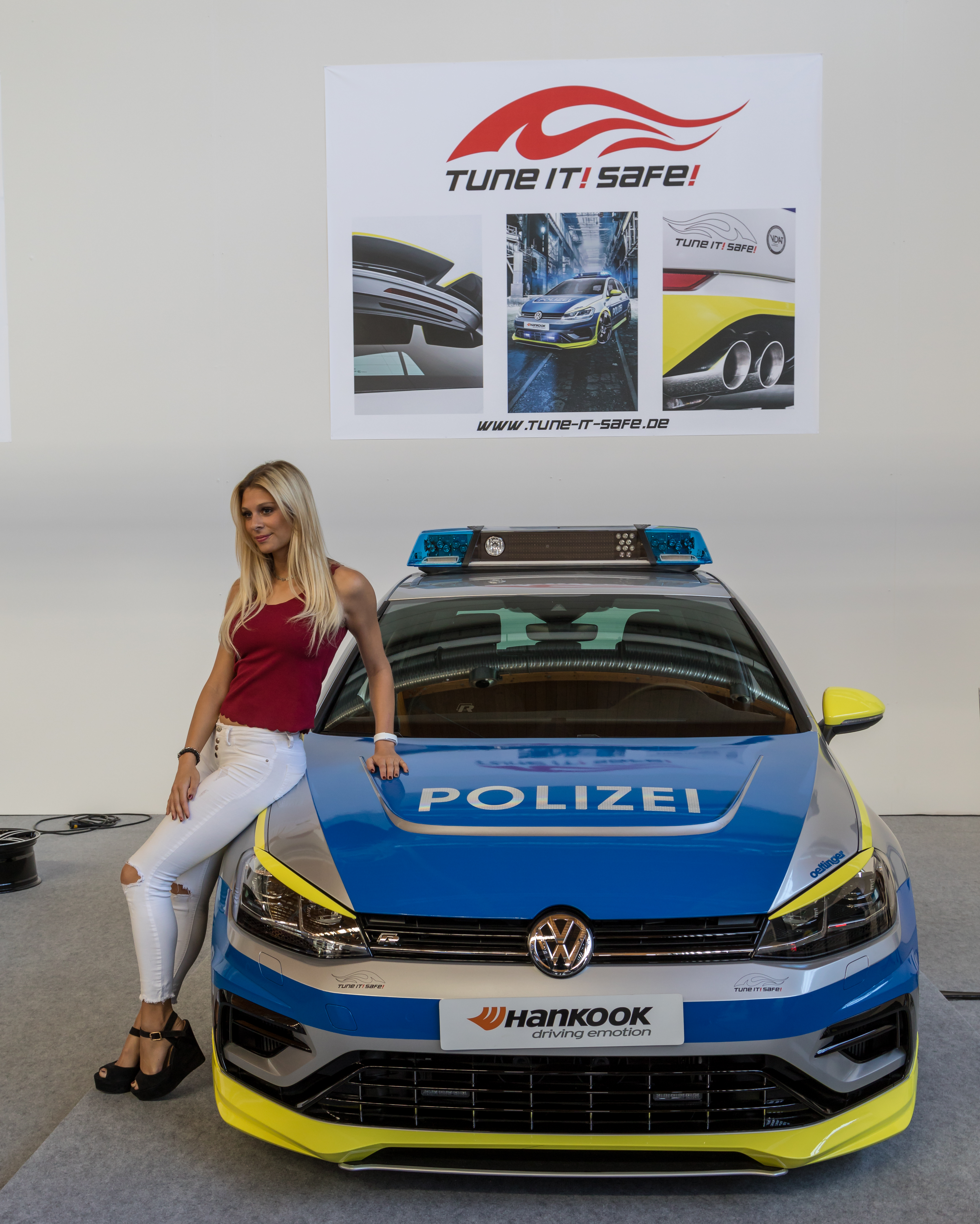 Miss Tuning 2017 with Tune it safe! campaign car 2018 at Tuning World Bodensee 2018